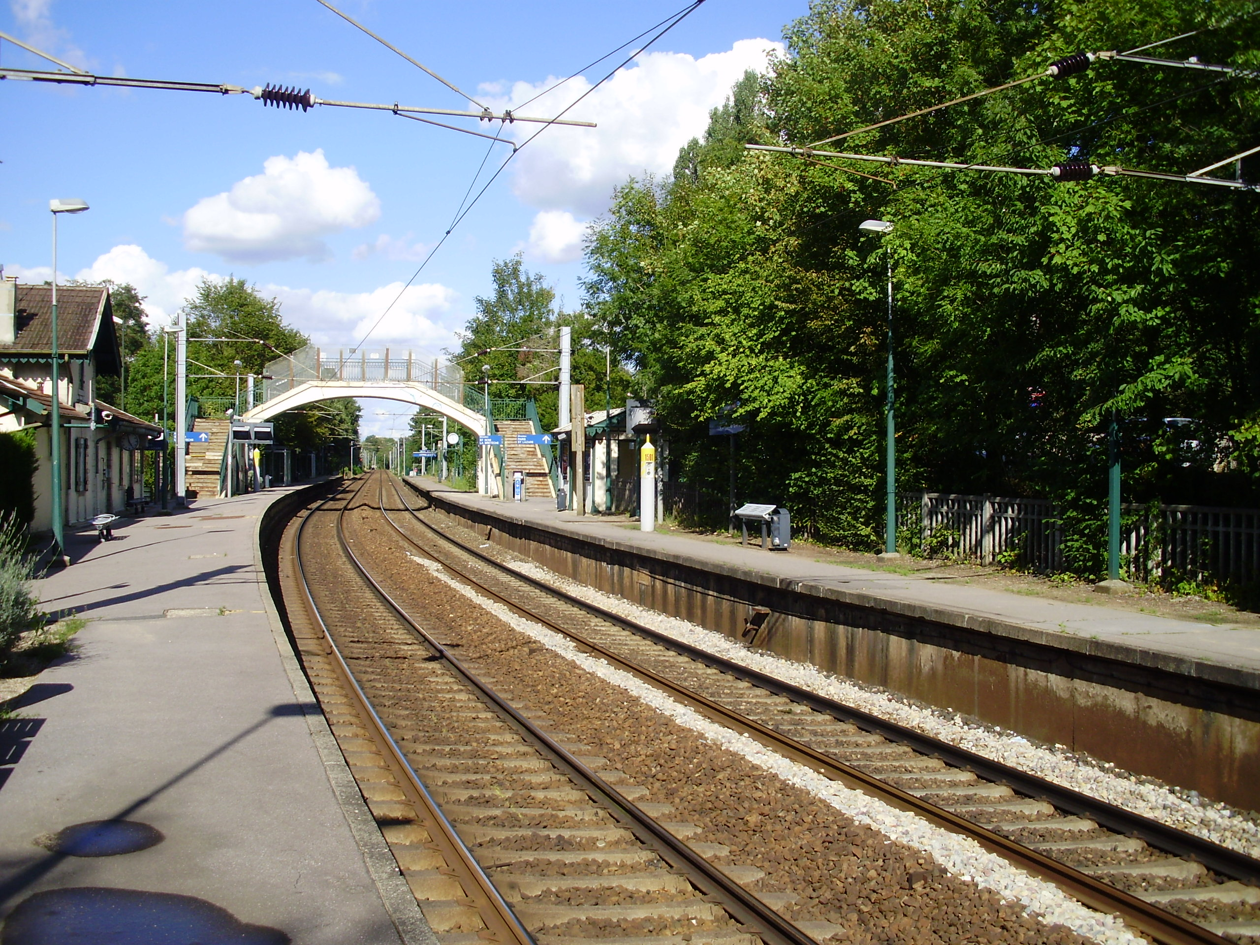 L'Étang-la-Ville station, Yvelines, France (platforms seen by looking towards Paris-Saint-Lazare)